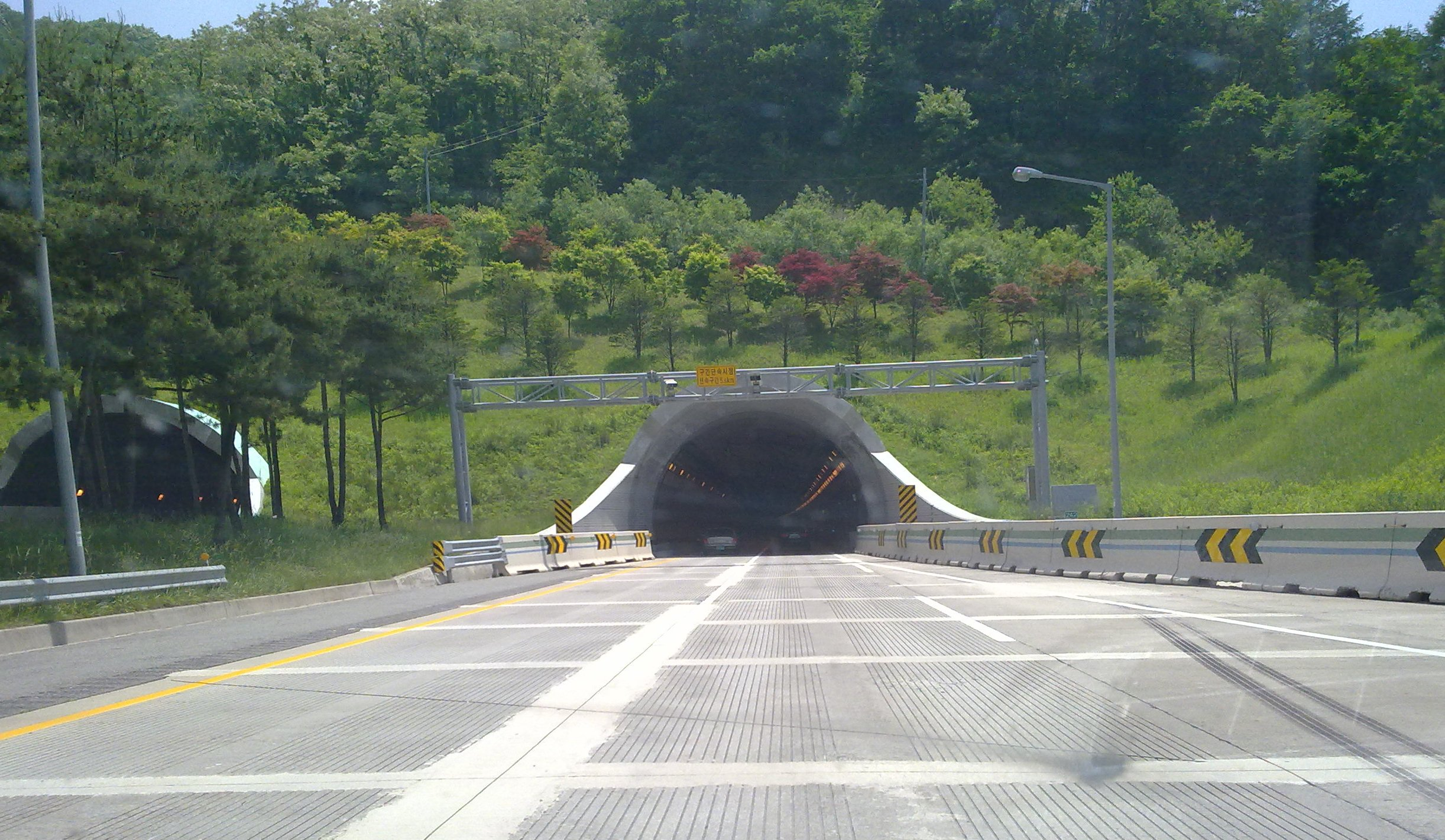 Jungang Expressway JungnyeongTunnel(To Busan)